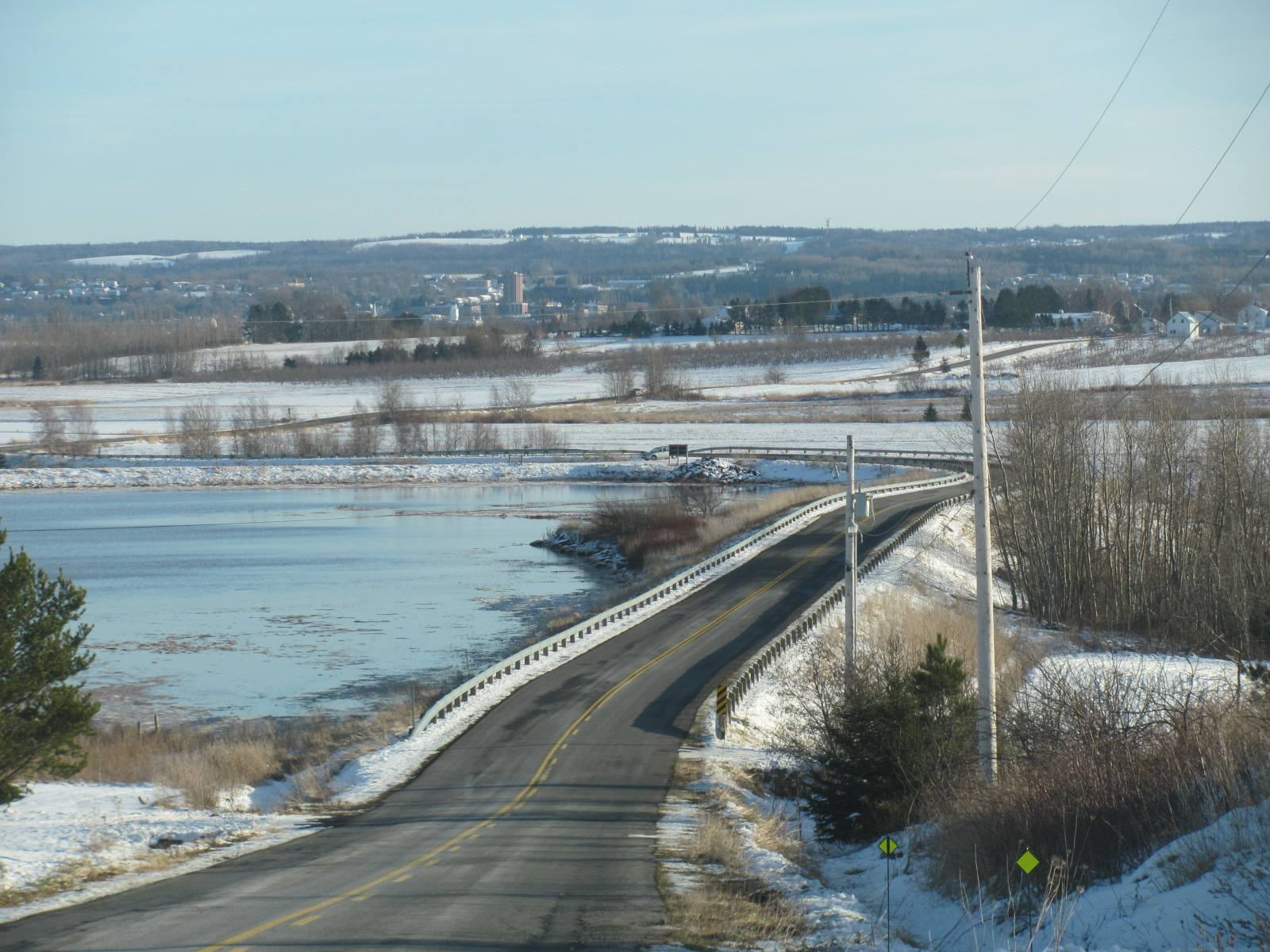 The Wellington Dyke and Wellington Dyke Road, Kings County, Nova Scotia Canada, looking south from Canard to Starr's Point, December 27, 2011